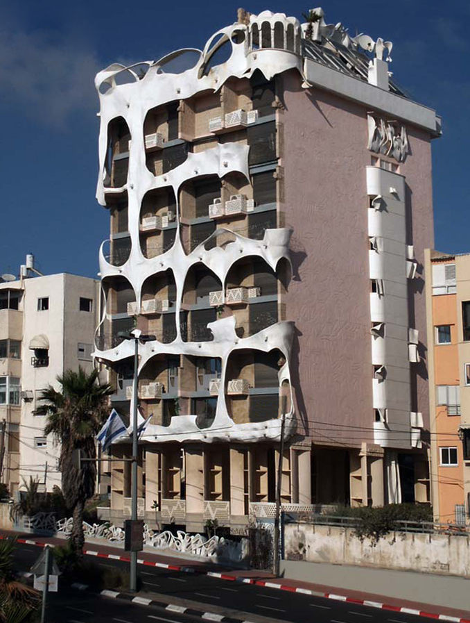 "The Crazy House", Hayarkon Street, Tel Aviv